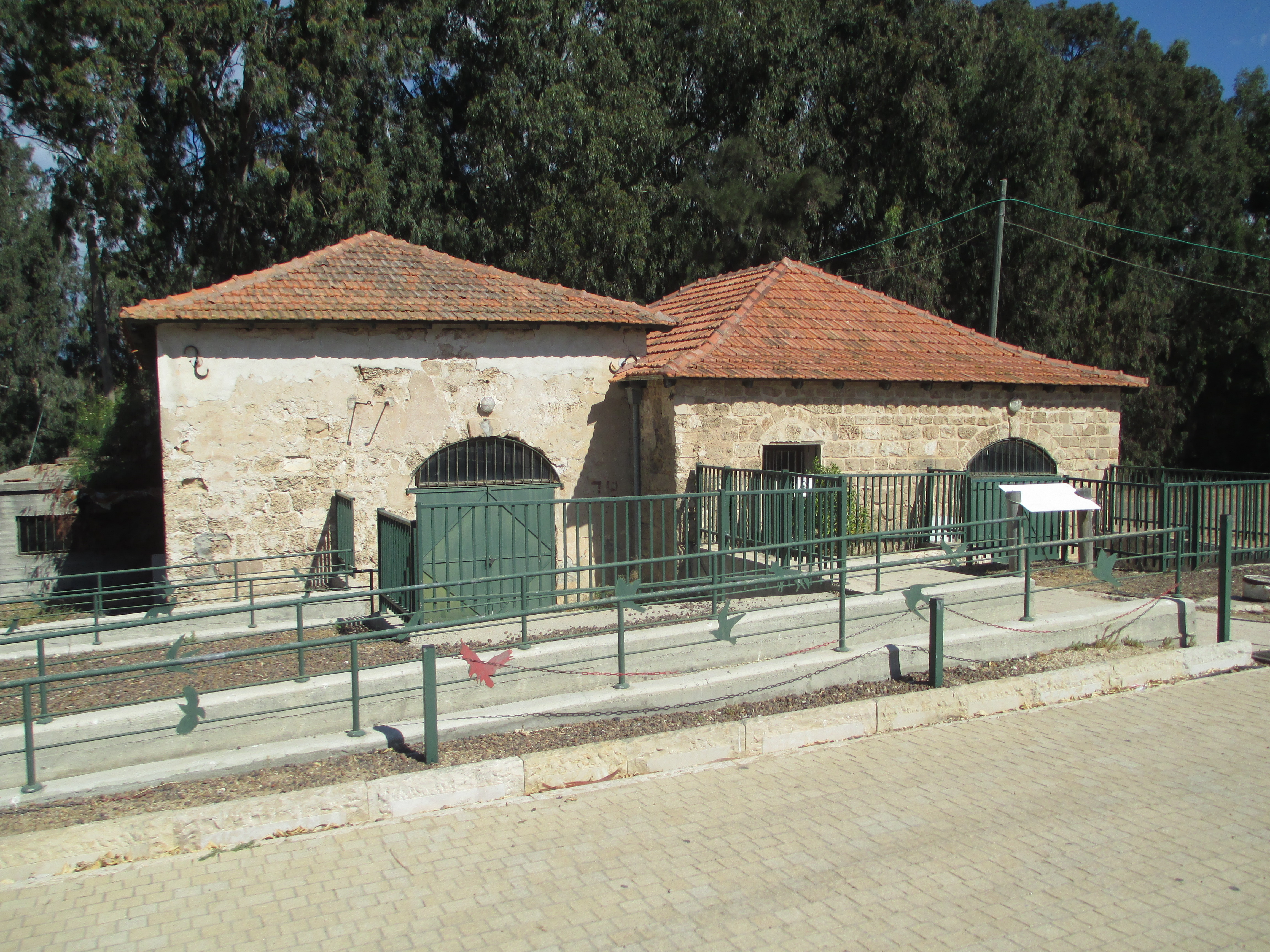 Heftzi-Ba Farm